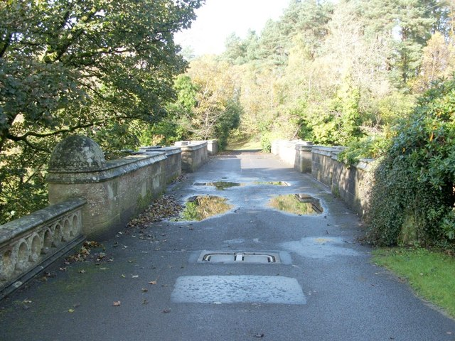 Overtoun Bridge. This thick-sided stone bridge, located next to 59380, has parapets on both sides; the river gorge that it crosses has sides that fall away steeply, and the river is therefore located a surprising distance below the bridge. Overtoun House was built in 1859-63 for the Rutherglen chemical manufacturer James White (1735631), whose son became the first Lord Overtoun, but the bridge dates from 1895, and was built by H.E.Milner ["North Clyde Estuary - An Illustrated Architectural Guide", Frank Arneil Walker with Fiona Sinclair]. Although his son, John Campbell White (the aforementioned Lord Overtoun), was well known for his charitable works, he was famously lambasted in 1899 by Keir Hardie, who exposed the appalling working conditions faced by those employed in his chemical factory. [The location has featured in news reports more than once. In 1994, a mentally-disturbed man threw his two-week-old son to his death from the bridge. In October 2006, the fact that a surprising number of dogs have leapt to their death from the bridge was the subject of a television programme. This phenomenon has been reported under the sensational and misleading title of "dog suicides". Suggested explanations have ranged from the supernatural to peculiar sonic effects in the structure of the bridge; however, among the more plausible explanations is the idea that something (perhaps the scent of mink) is tempting dogs, from whose viewpoint the long drop is not apparent, to leap the bridge wall.]